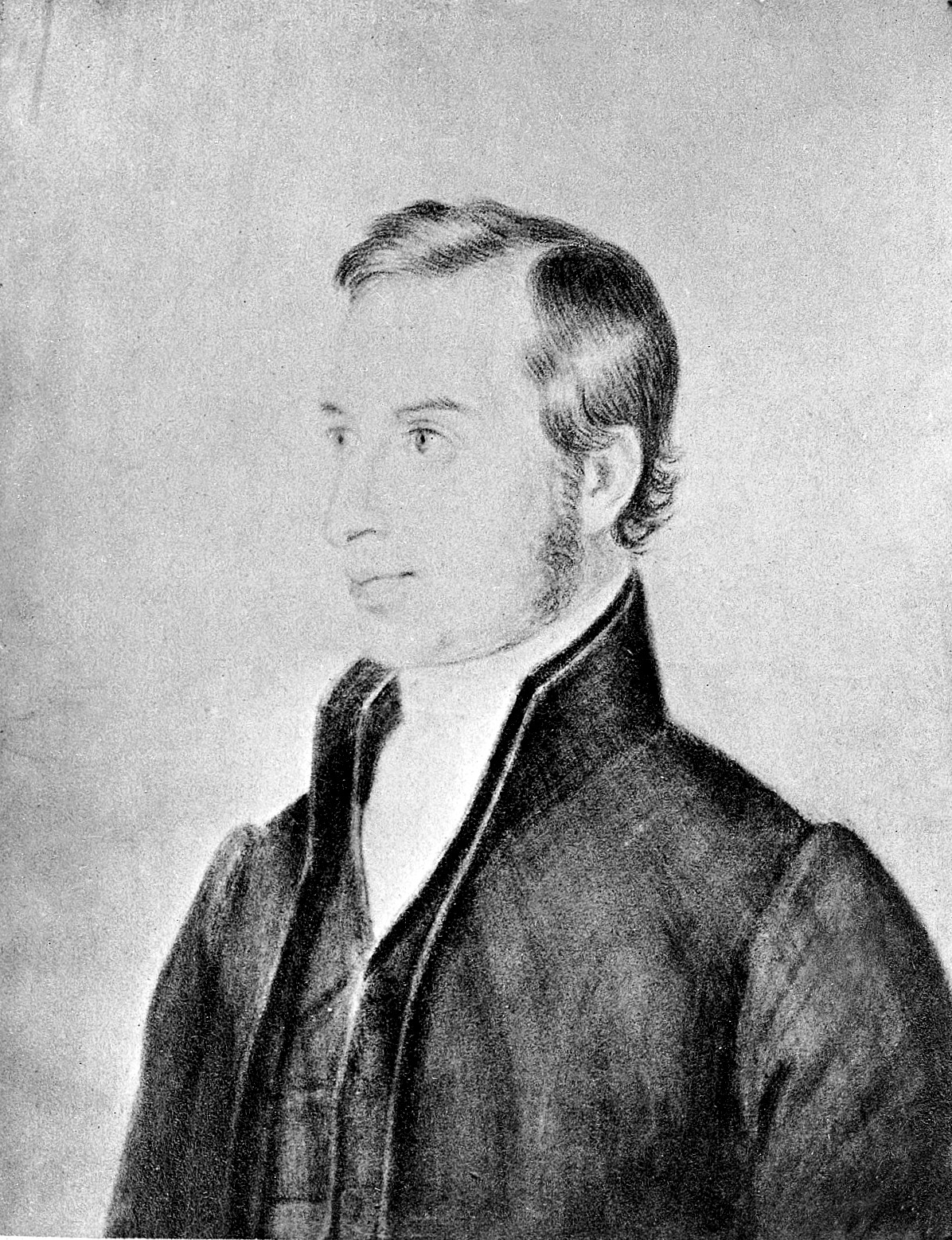 Thomas Hodgkin as a young man, 1/4 length to left. General Collections Keywords: Thomas Hodgkin; Ernest Edwards